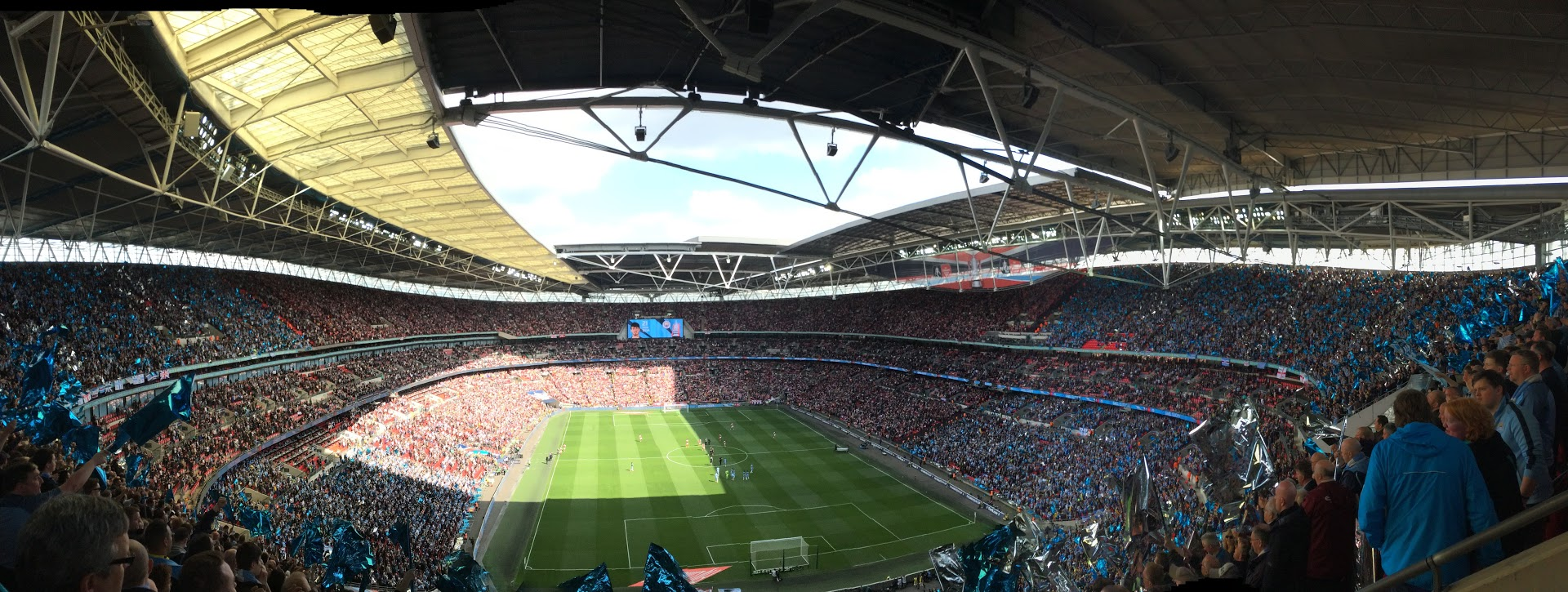 A panorama of Arsenal vs Manchester City FA Cup Semi-Final 2016/17 - Wembley Stadium